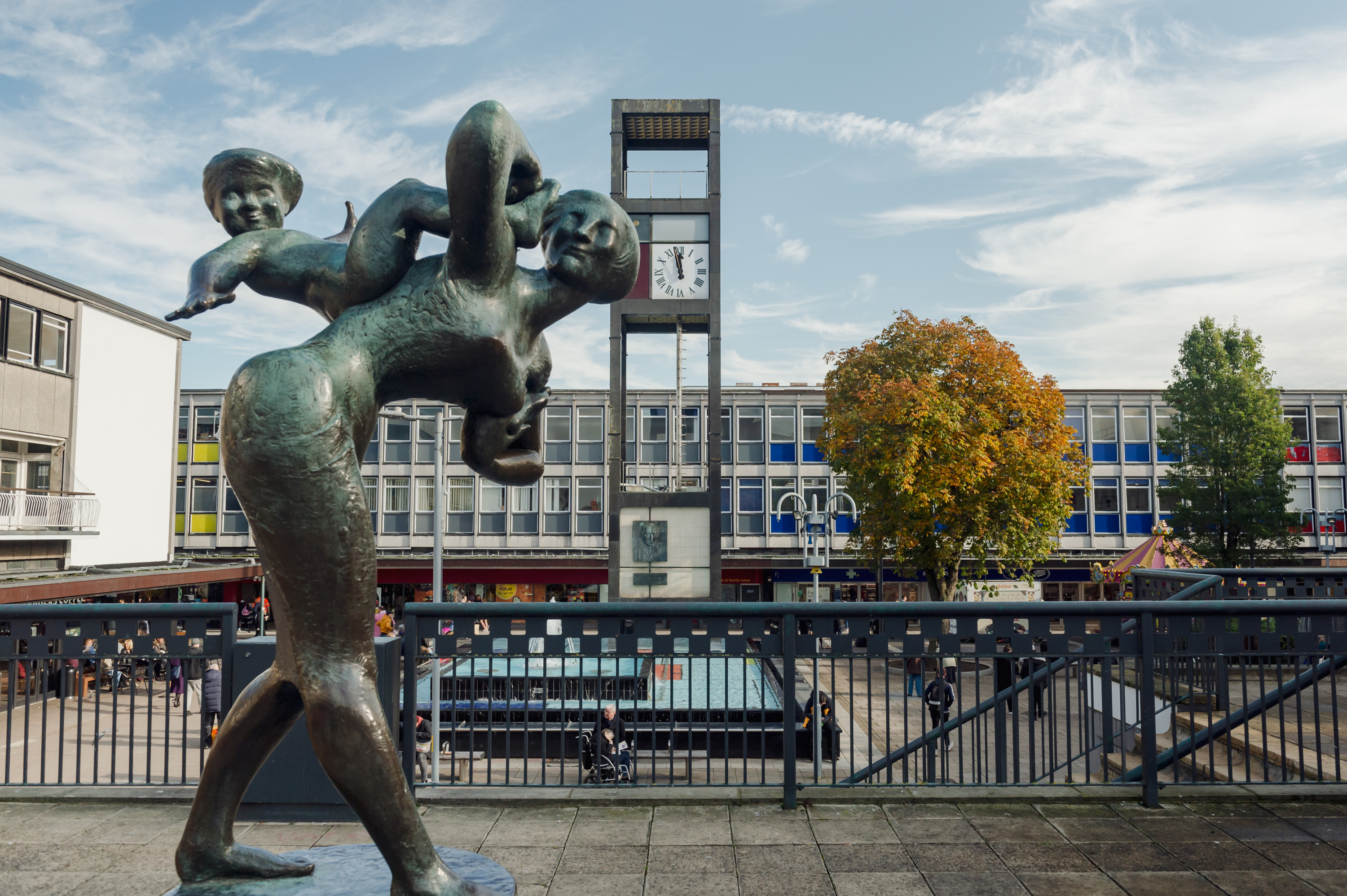 Stevenage Town Centre featuring the iconic Clock Tower and fountain and the Franta Belsky 'Joyride' Statue